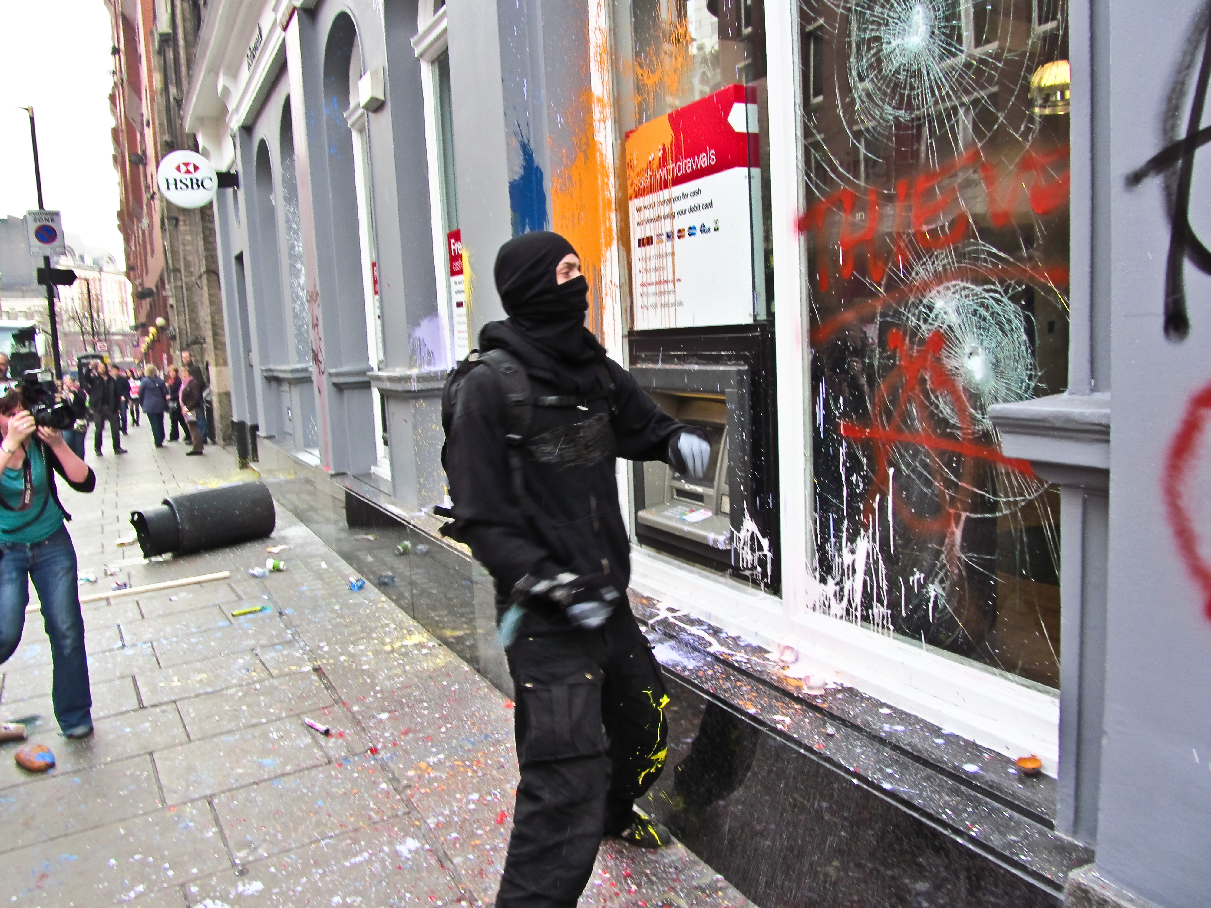 A protestor damages a bank in central London on the day of the March for the Alternative